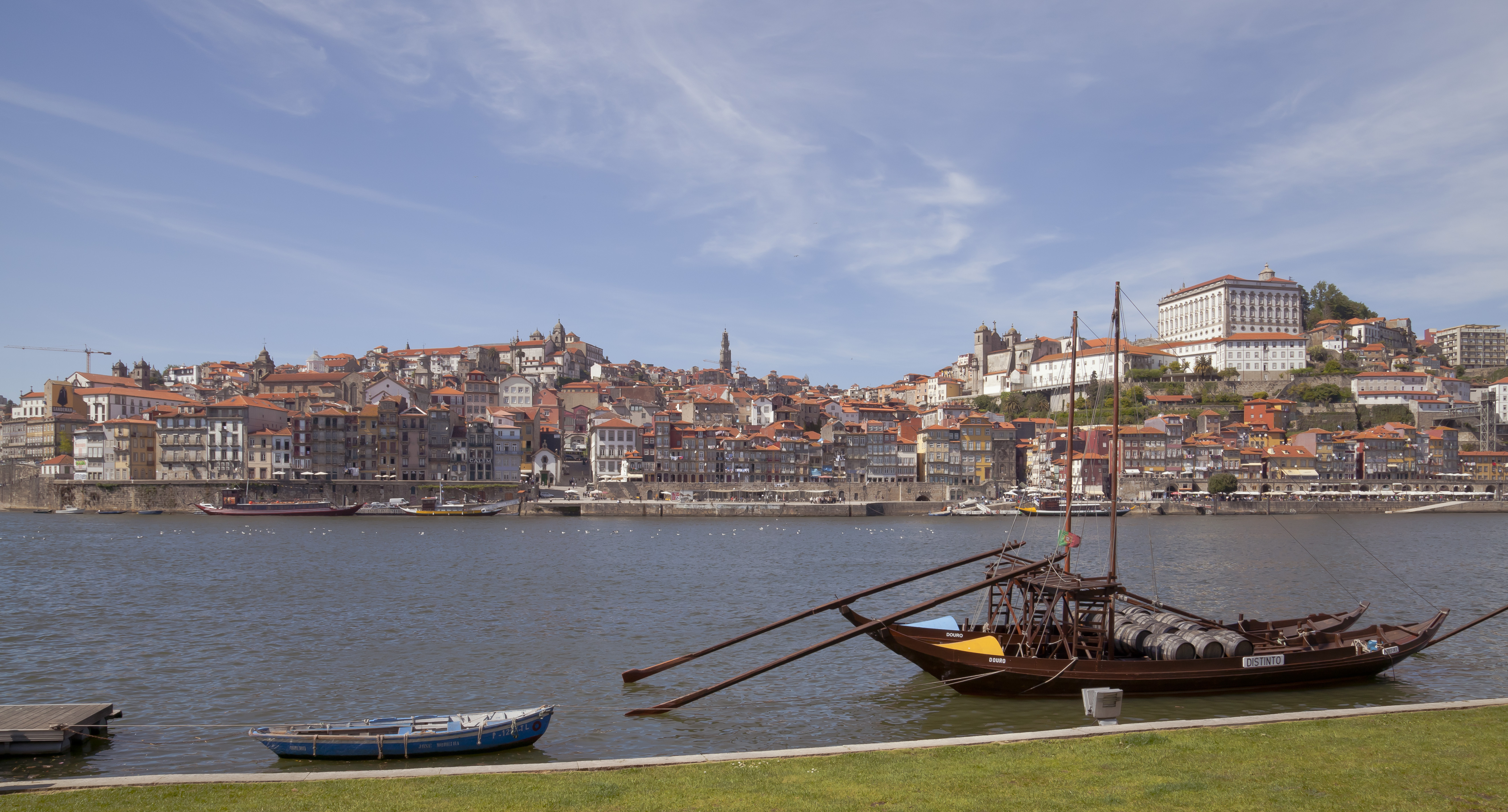 Rabelos in the Duero river, Vila Nova de Gaia, Portugal